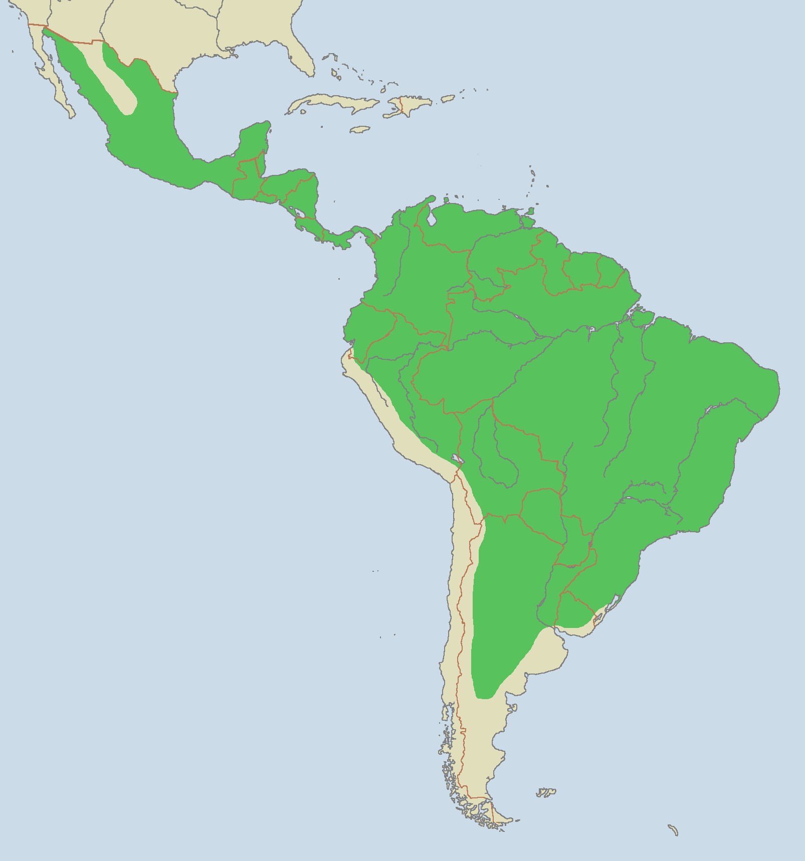 Original range of panthera onca. Made starting with Brion VIBBER's maps based on [1].